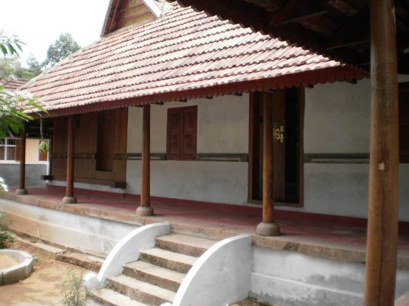 Aranmula Palace